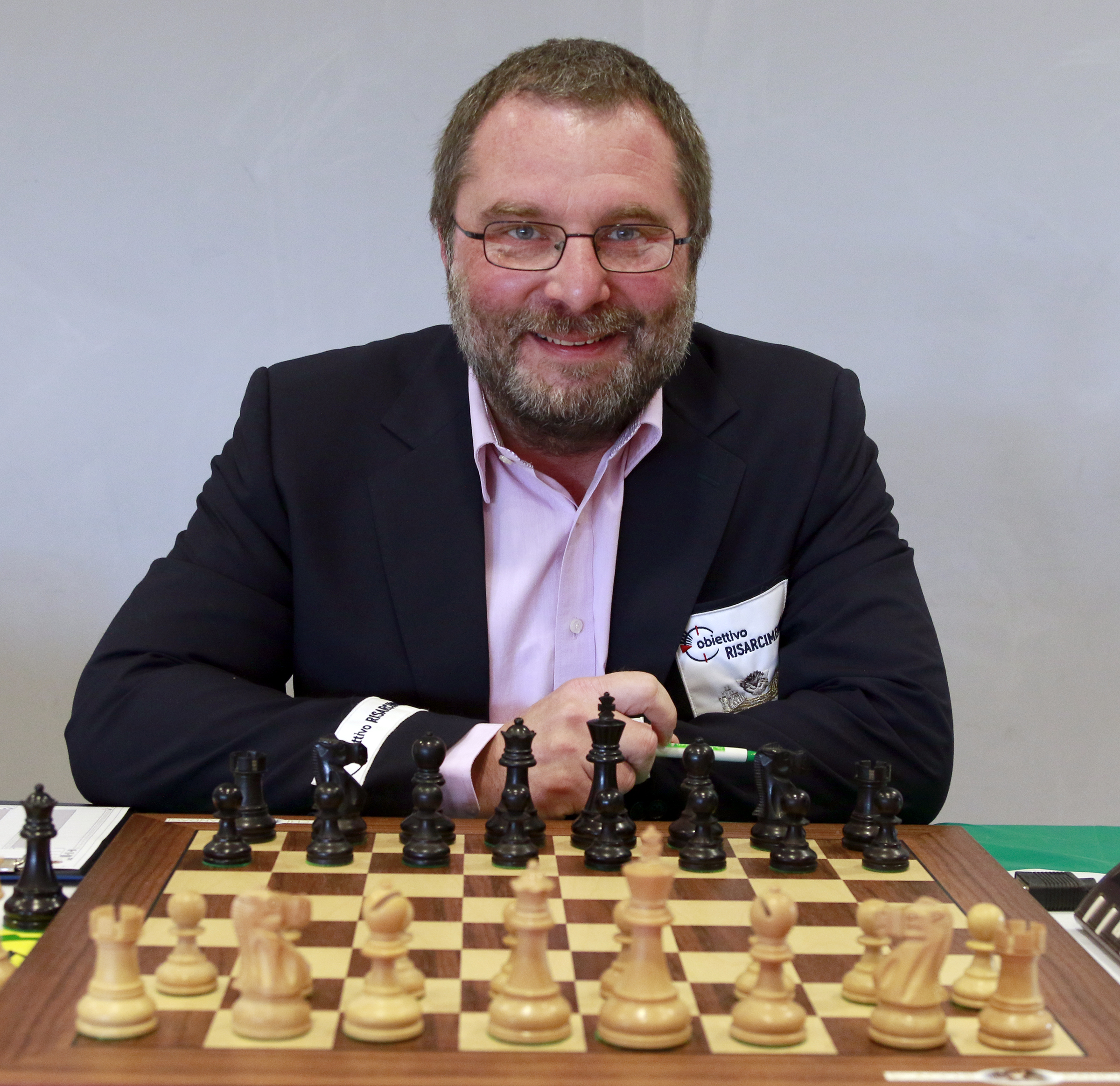 Michele Godena, chess Grandmaster. 47° Italian Team Championship, Civitanova Marche (Italy), April 29th/May 3rd, 2015.